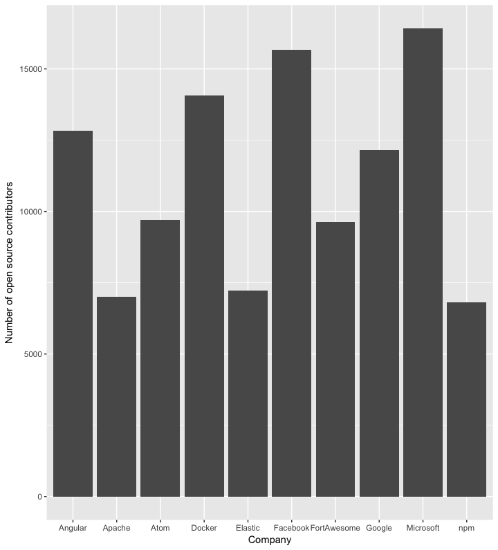 Open source contributions by company